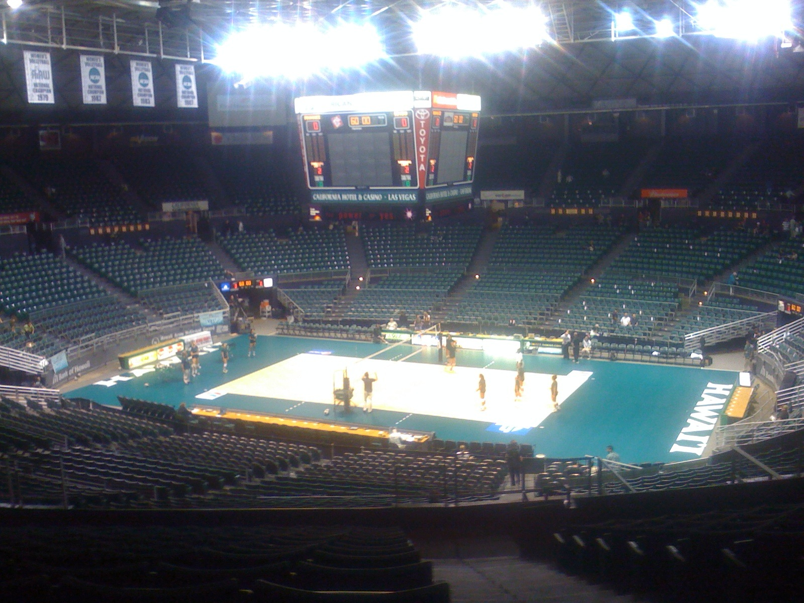 Its the Stan Sheriff Center Empty